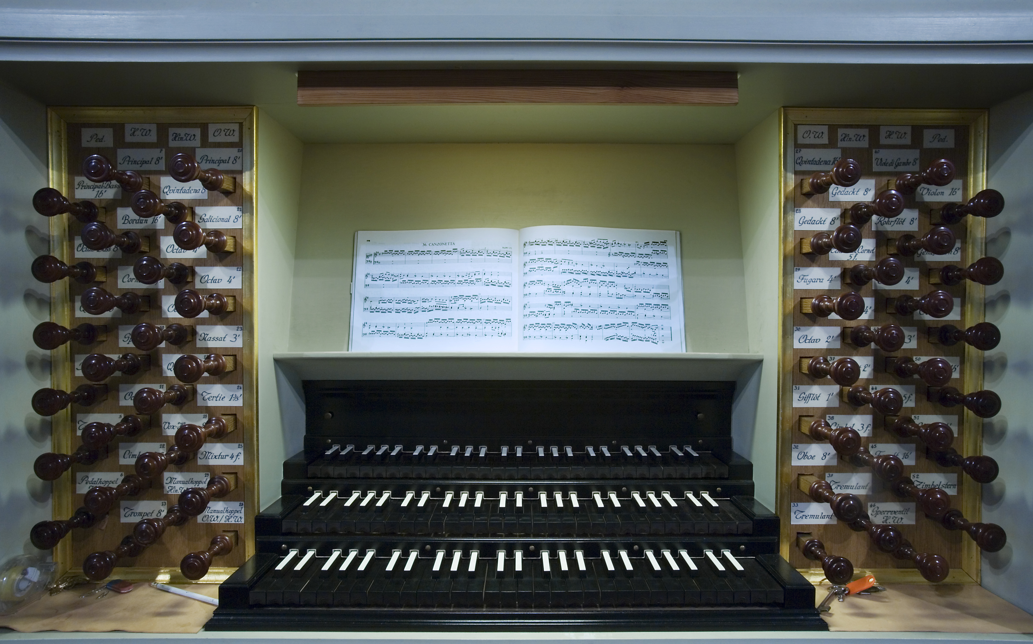 Church pipe organ at St Marienkirche details. Berlin, Germany